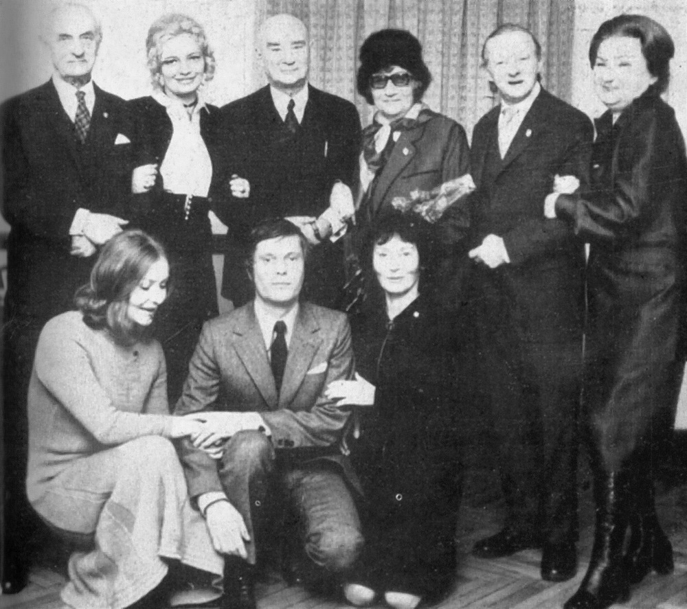 actors playing roles of Matysiakowie, a popular radio soap opera